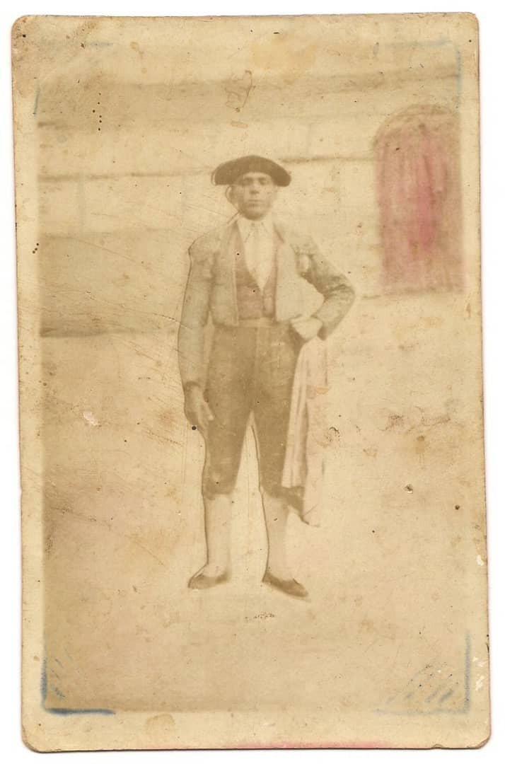 Daguerreotypes of a Bullfighter in Venezuela,1925. Person: José de Jesus Hernández Rangel